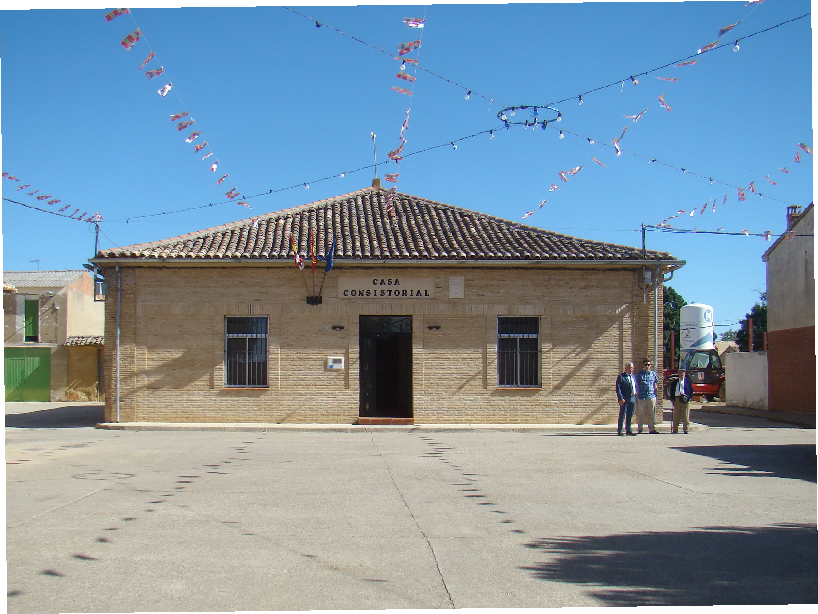 Villafrades de Campos, municipality of Valladolid, Spain. Town Hall House.